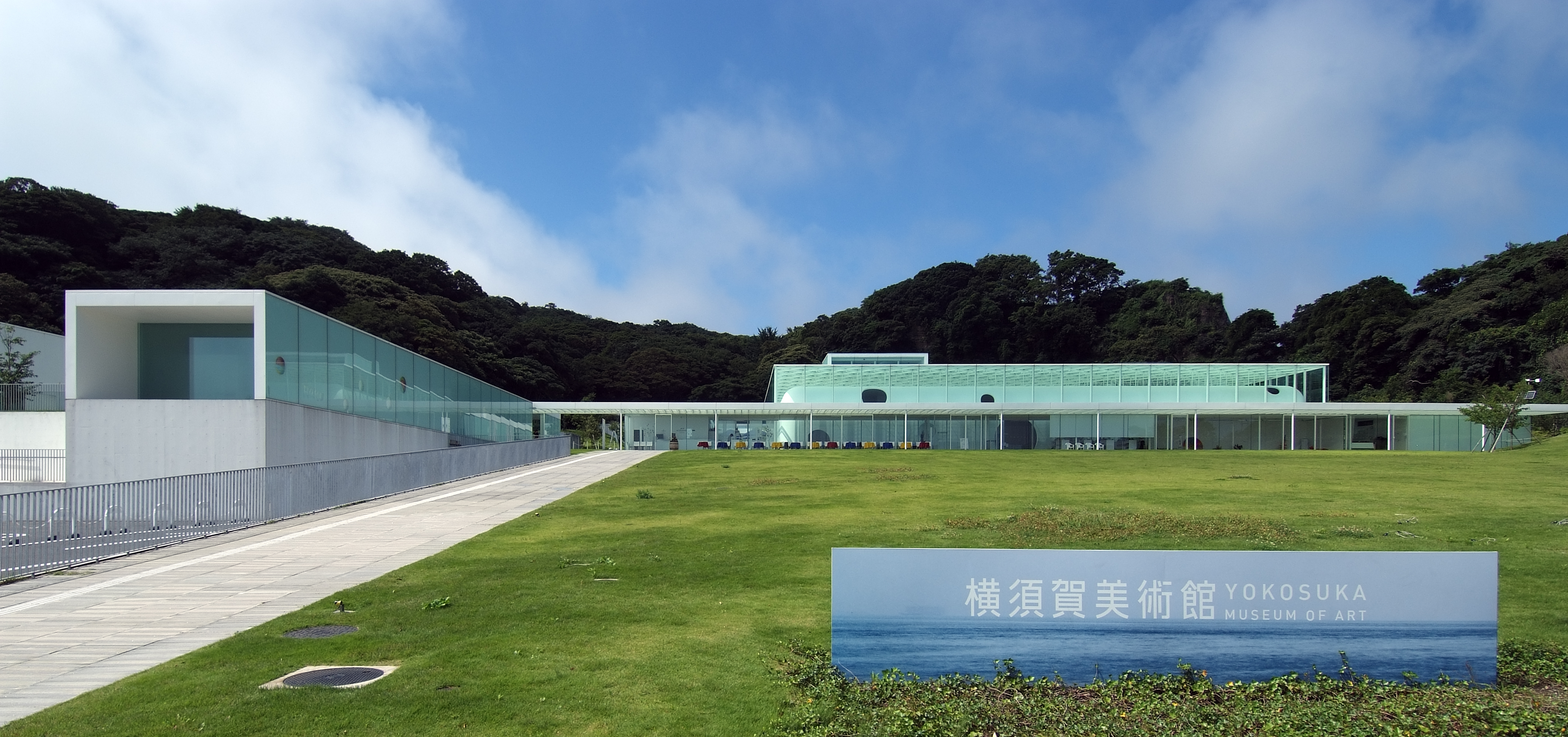 Yokosuka Museum of Art, at Yokosuka Kanagawa Japan, designed by Riken Yamamoto in 2007.